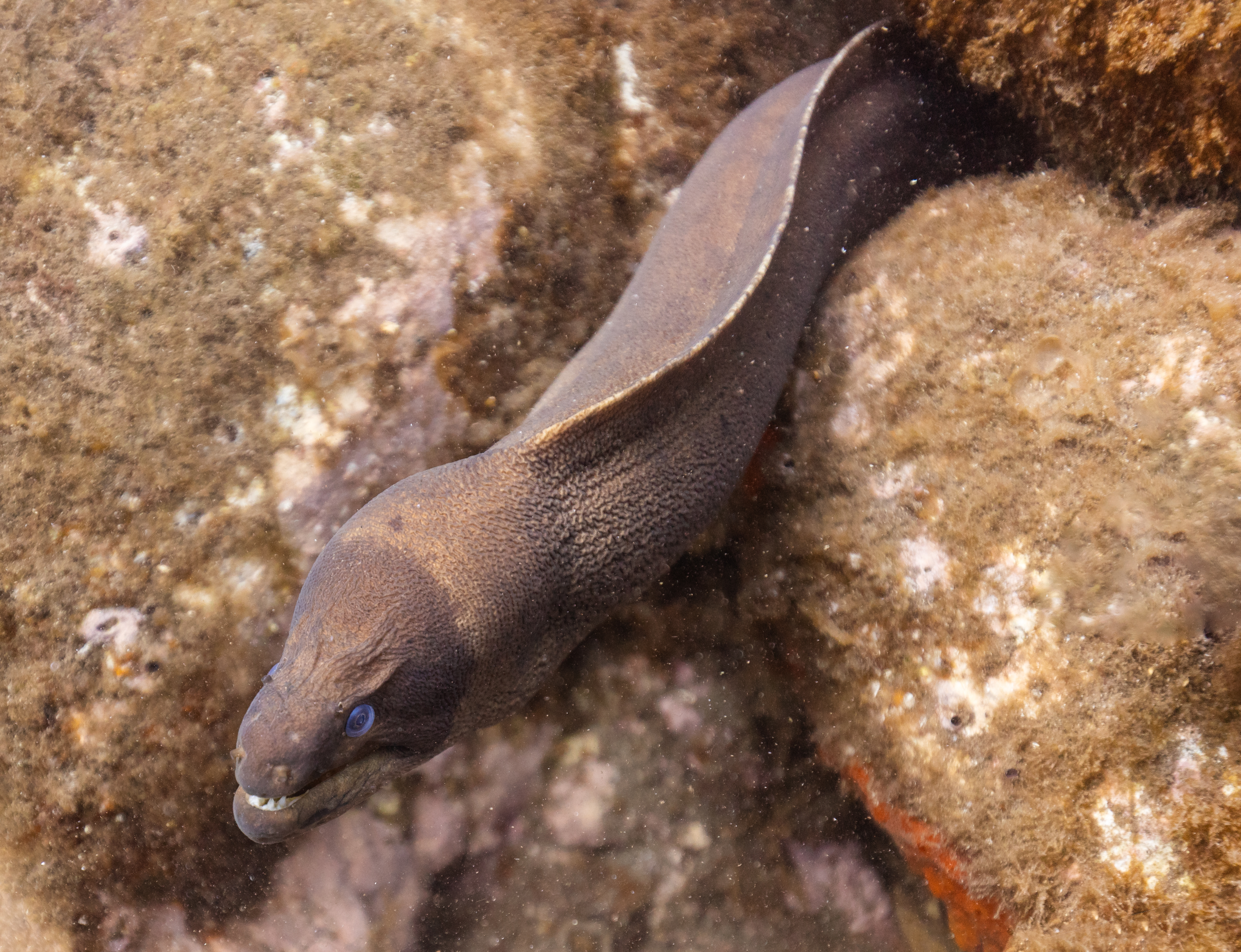 Brown moray eel (Gymnothorax unicolor), Madeira, Portugal